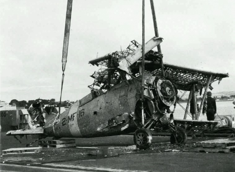 A former U.S. Marine Corps Grumman F3F-2 (BuNo 0976) after its salvage on 5 April 1990 at the U.S. Naval Aviation Depot North Island, California (USA). This F3F-2 was assigned to the U.S. Marine Corps at Quantico, Virginia (USA), on 21 December 1937. The aircraft served briefly with Aircraft Squadron One (later Marine fighter squadron VMF-1), but was assigned to VMF-2 at Naval Air Station (NAS) San Diego, California (USA), on 17 January 1938. On 29 August 1940 the plane was piloted by 1st Lt. Bob Galer (later a brigadier general) for carrier qualification aboard the aircraft carrier USS Saratoga (CV-3) off the coast of California. On approach for one landing Galer switched fuel tanks, causing the engine to quit and leaving Galer with no choice but to ditch the aircraft. It sank to a depth of 600 m and was discovered in 1989. It could be salvaged by the USNS Narragansett (T-ATF 167) on 5 April 1990 and was restored at the San Diego Aerospace Museum for three years and is today on display at the National Museum of Naval Aviation at Pensacola, Florida (USA).